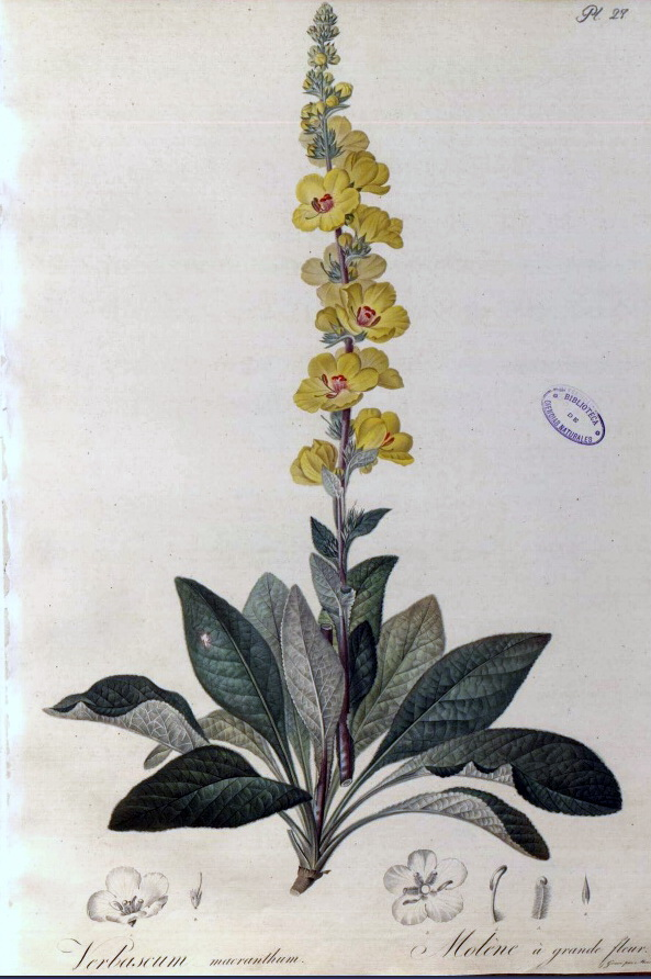 Verbascum macranthum Hoffmanns. & Link from Flore Portugaise